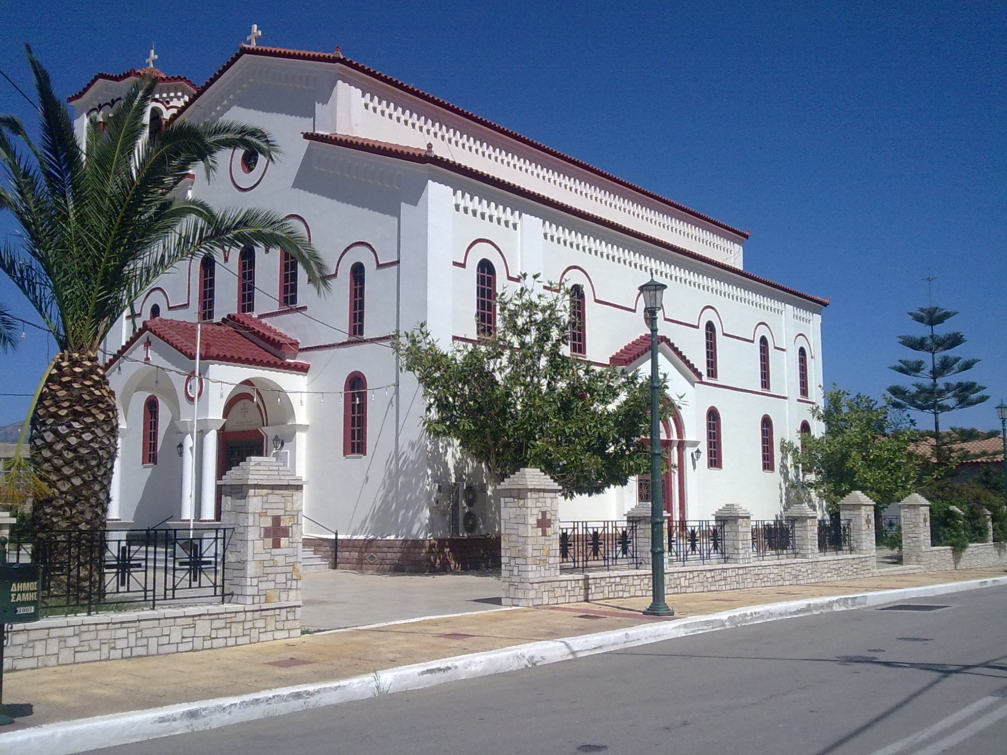 View of the Life Giving Fountain church,in the main square of Sami.